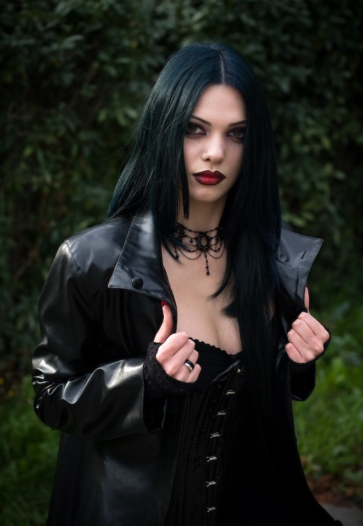 Festival "Deti Nochi: Chorna Rada", visitors